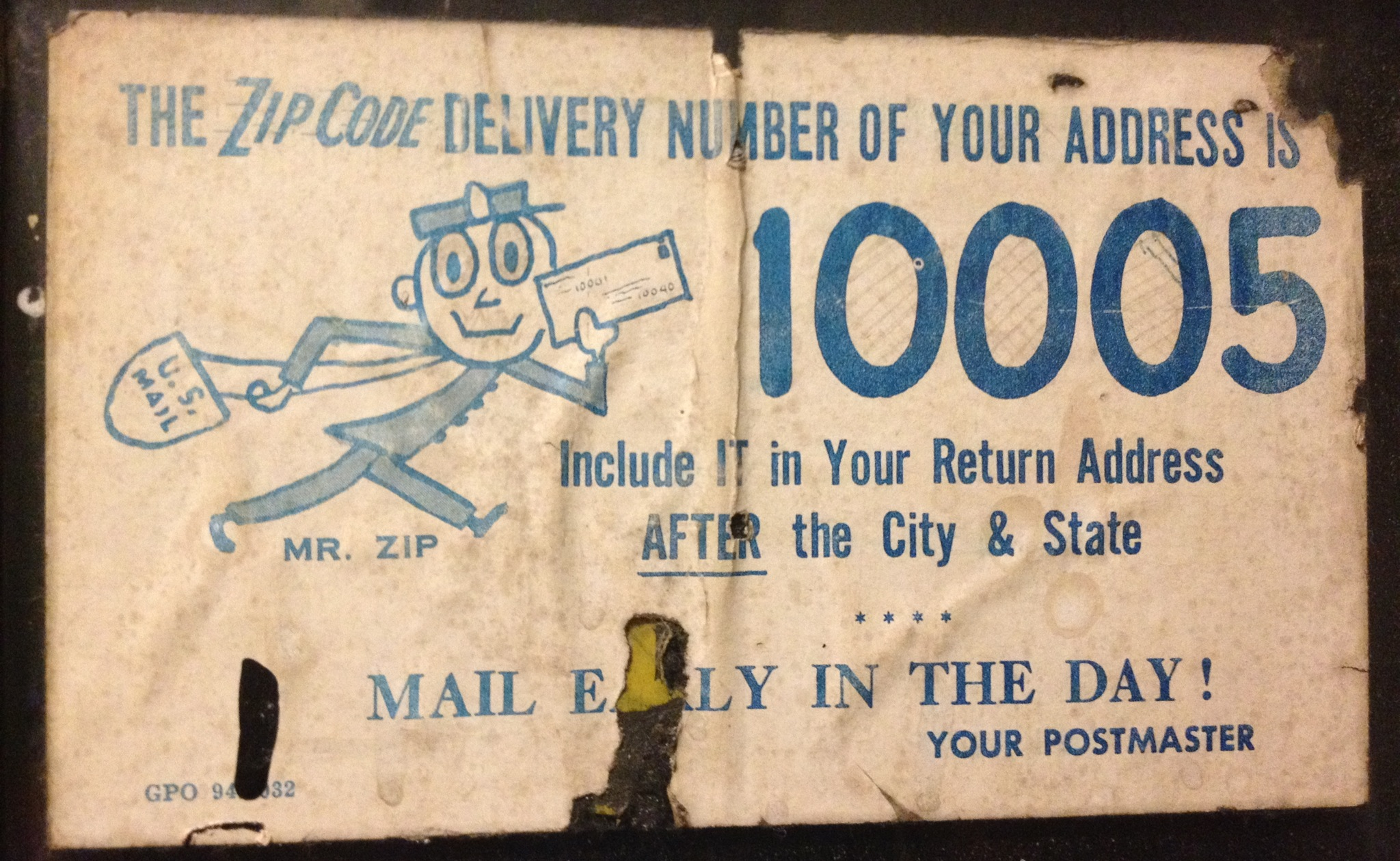 United States Postal Service advertisement for ZIP Code 10005.